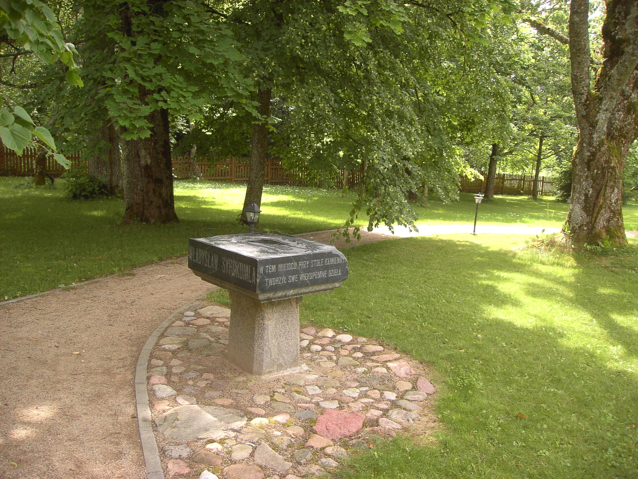 A monument to Władysław Syrokomla in Village Bareikiškės